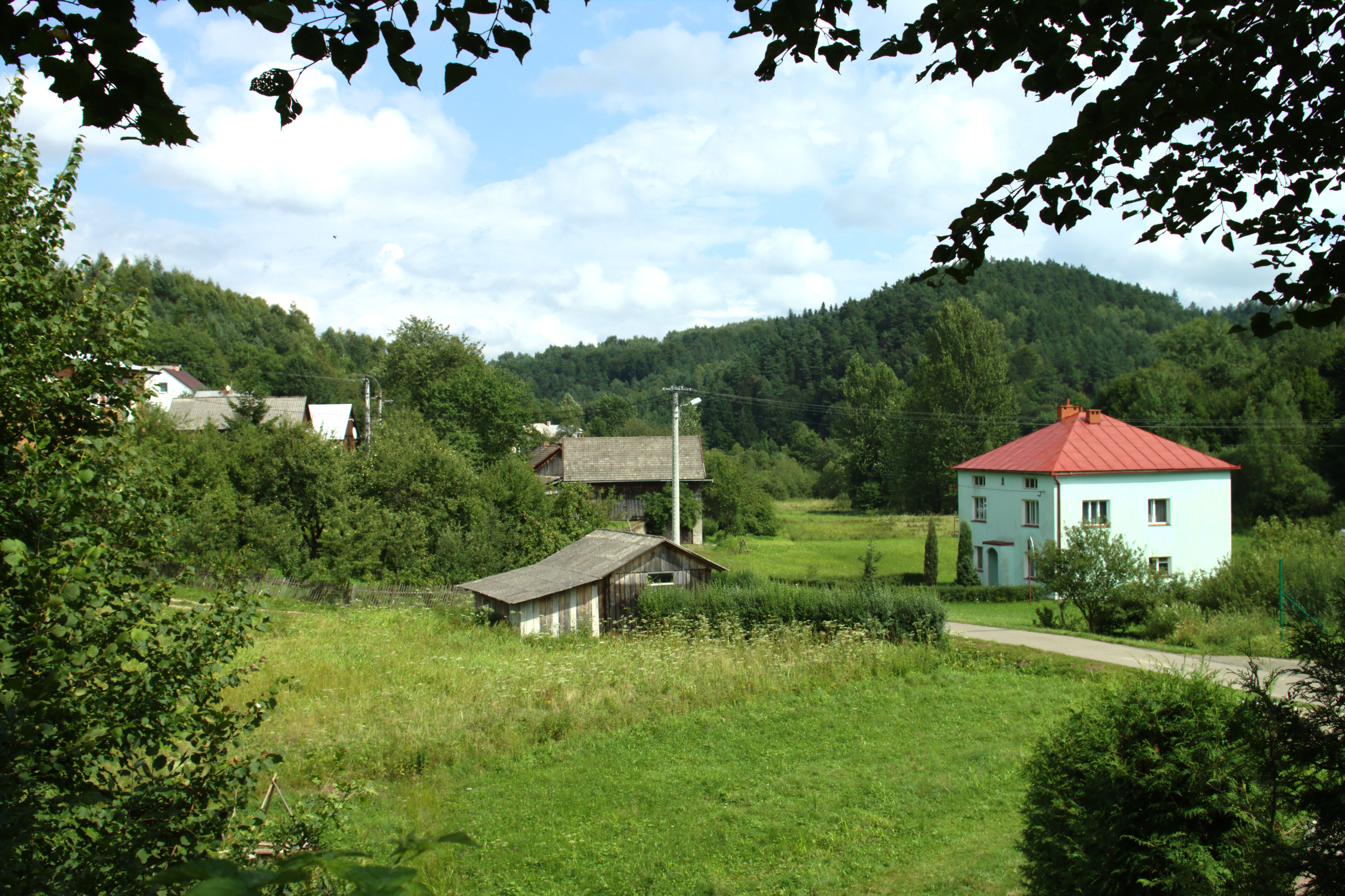 Obarzym village, Podkarpackie voivodeship, Poland This photo of Subcarpathian Voivodeship was taken during Wikiekspedycja 2011 set up by Wikimedia Polska Association.You can see all photographs in category Wikiekspedycja 2011. The making of this document was supported by Wikimedia Polska.